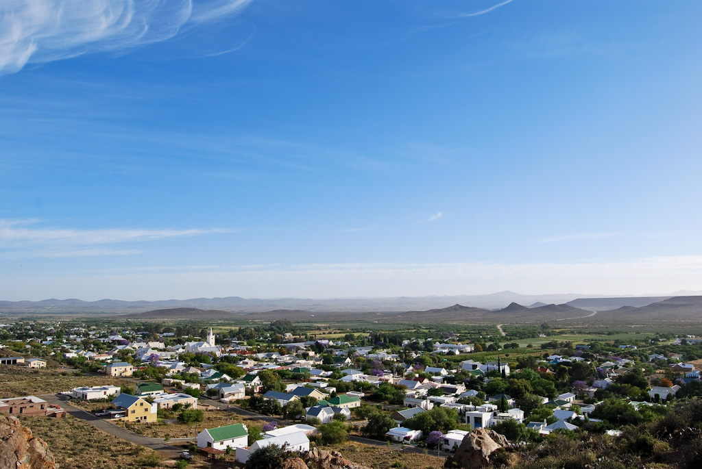 Prince Albert, South Africa in 2009